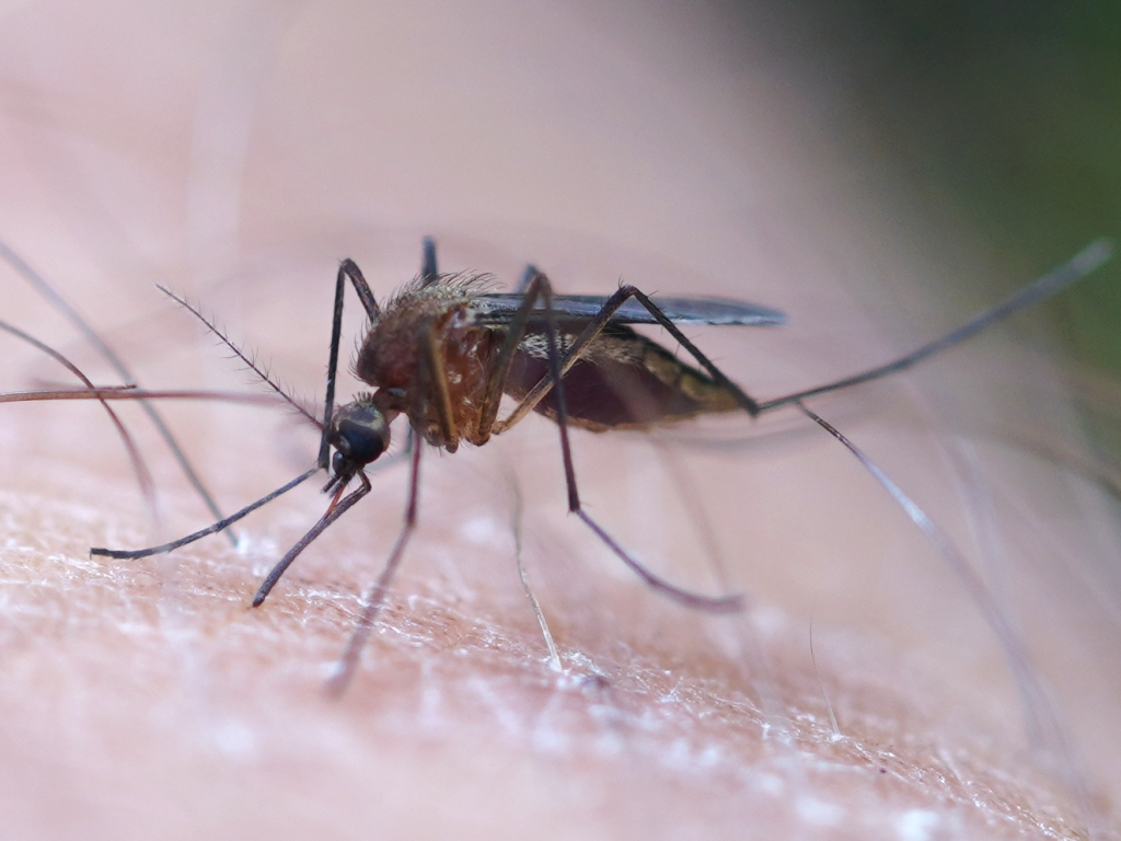 Aedes cinereus Meigen, 1818. Cought biting on skin. Latvia, Rīga.